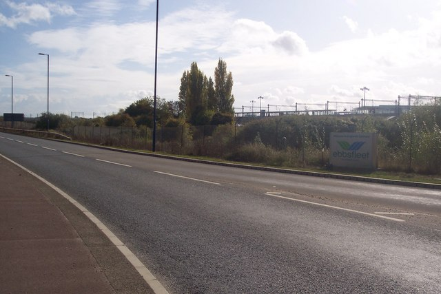 The A226 Thames Way, near Ebbsfleet This road leads left towards Ebbsfleet Station (on the Channel Tunnel Rail Link), from Northfleet. The metal sign on the right, reads 'Welcome to England's Gateway, Ebbsfleet International'. The station is in the background.